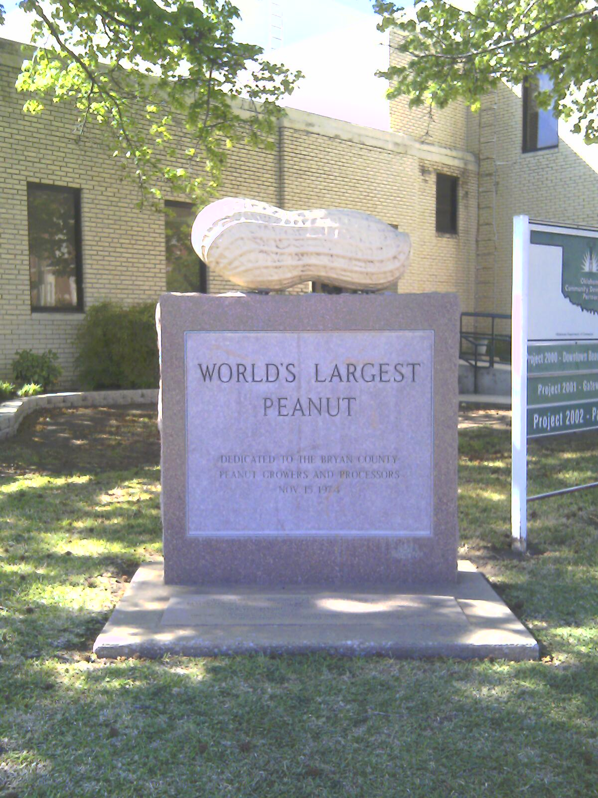 Dedicated to the peanut industry in Durant OK. (1975)